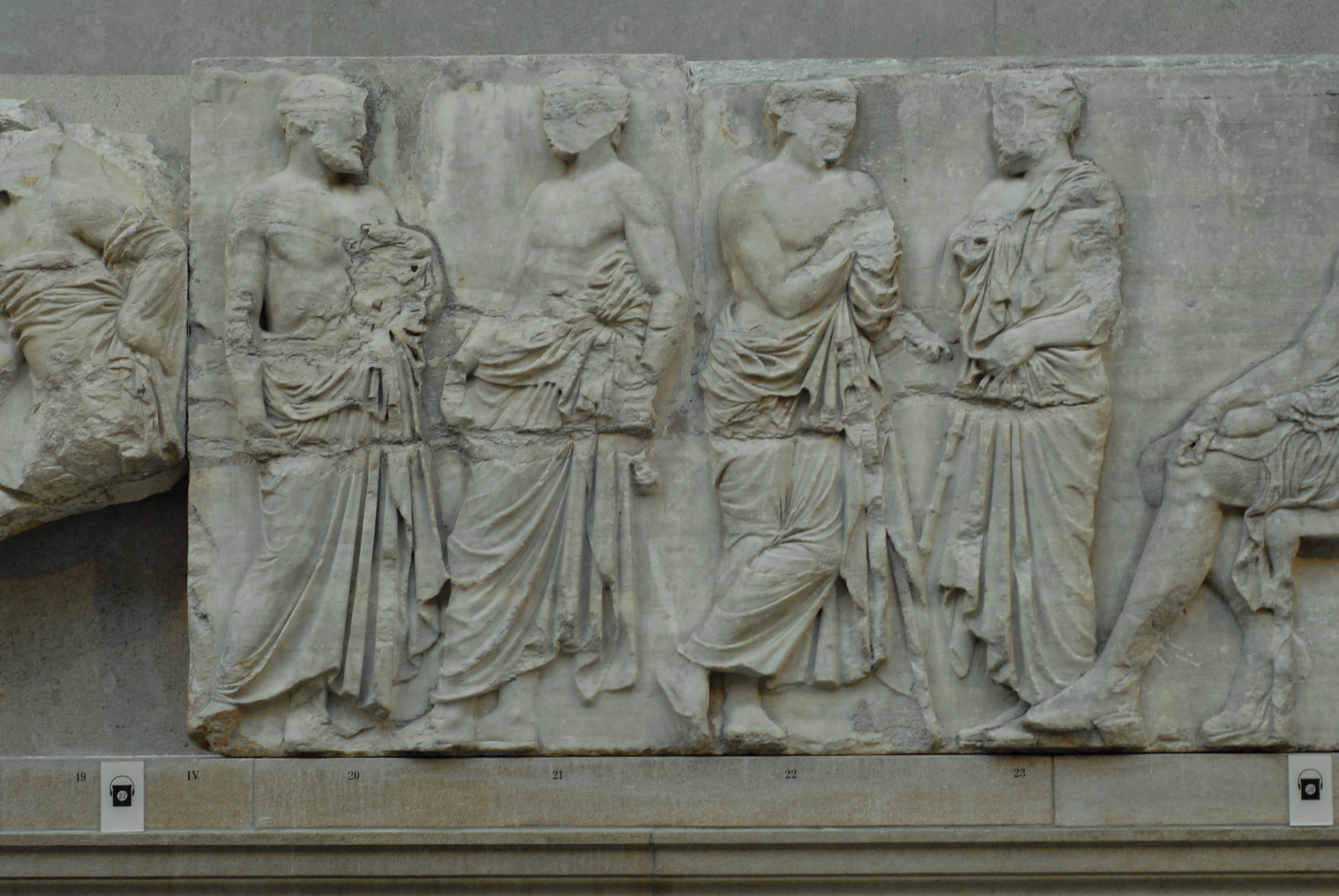 Archons, Heros or officals. Block IV from the east frieze of the Parthenon, ca. 447–433 BC.